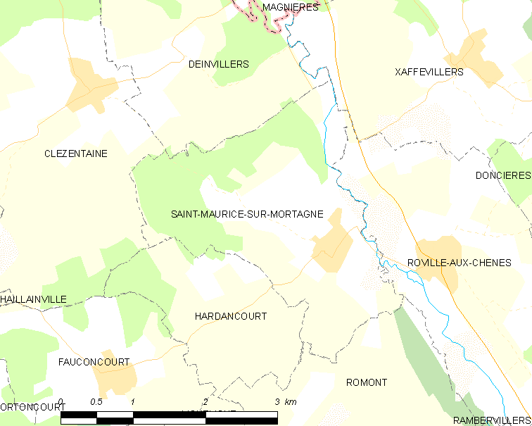 Map of French municipality Saint-Maurice-sur-Mortagne